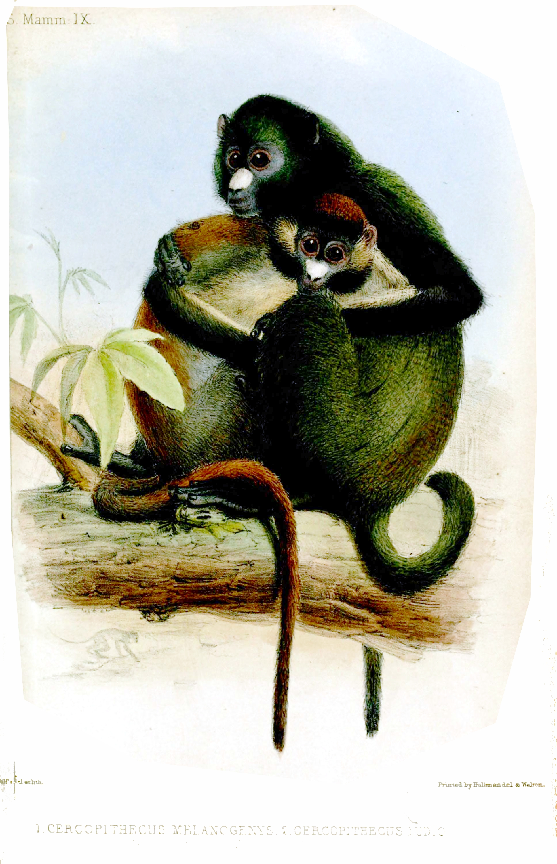 Red-tailed Monkey (left); Greater Spot-nosed Monkey (right)